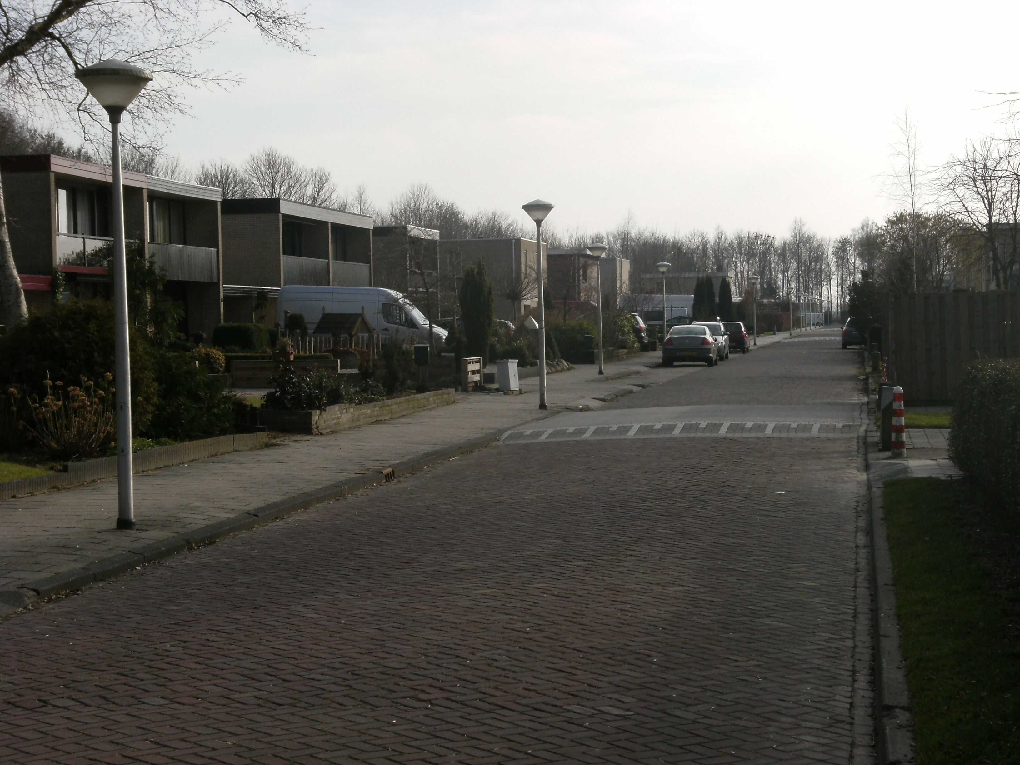 Street in Nagele.